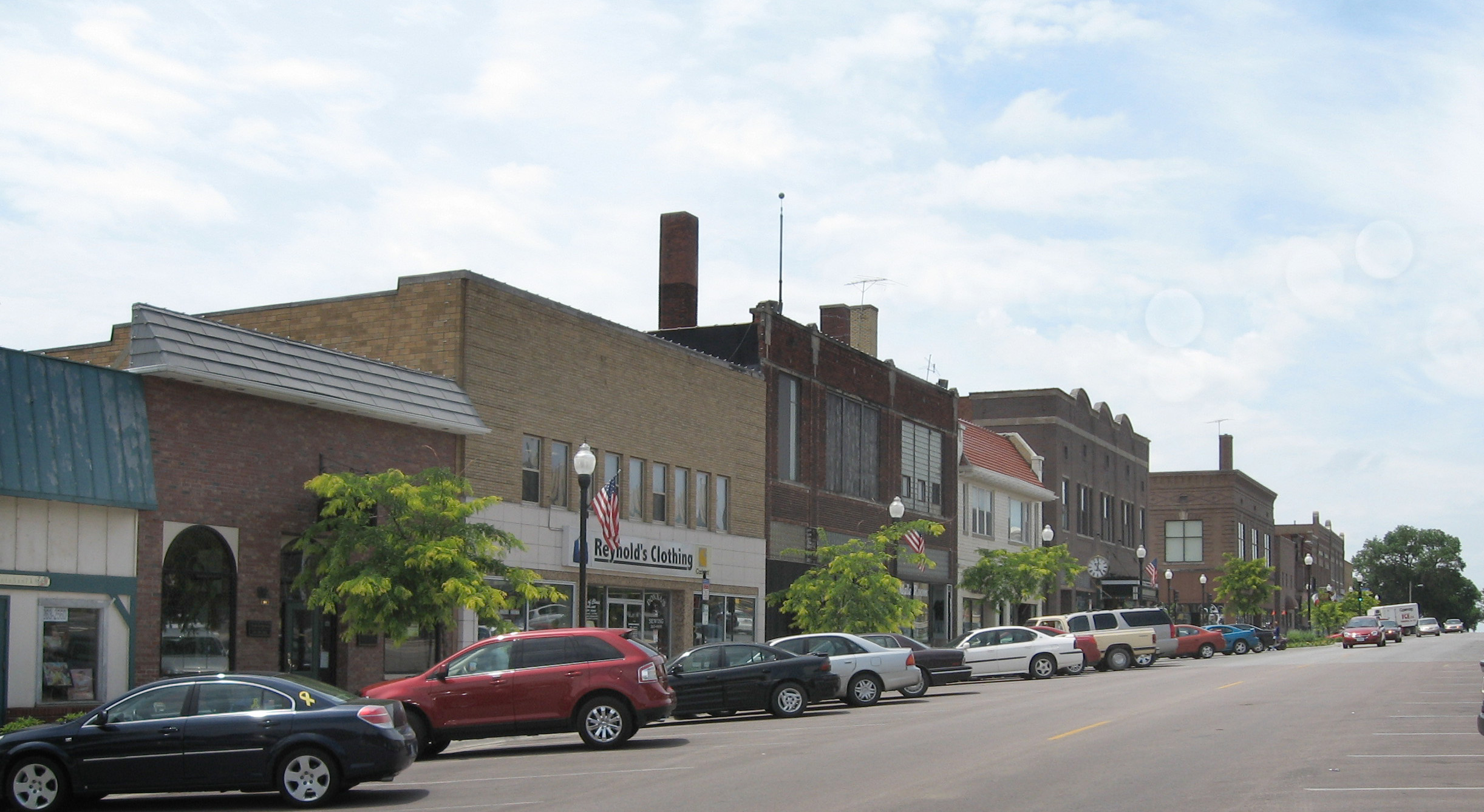 downtown Dension, Iowa